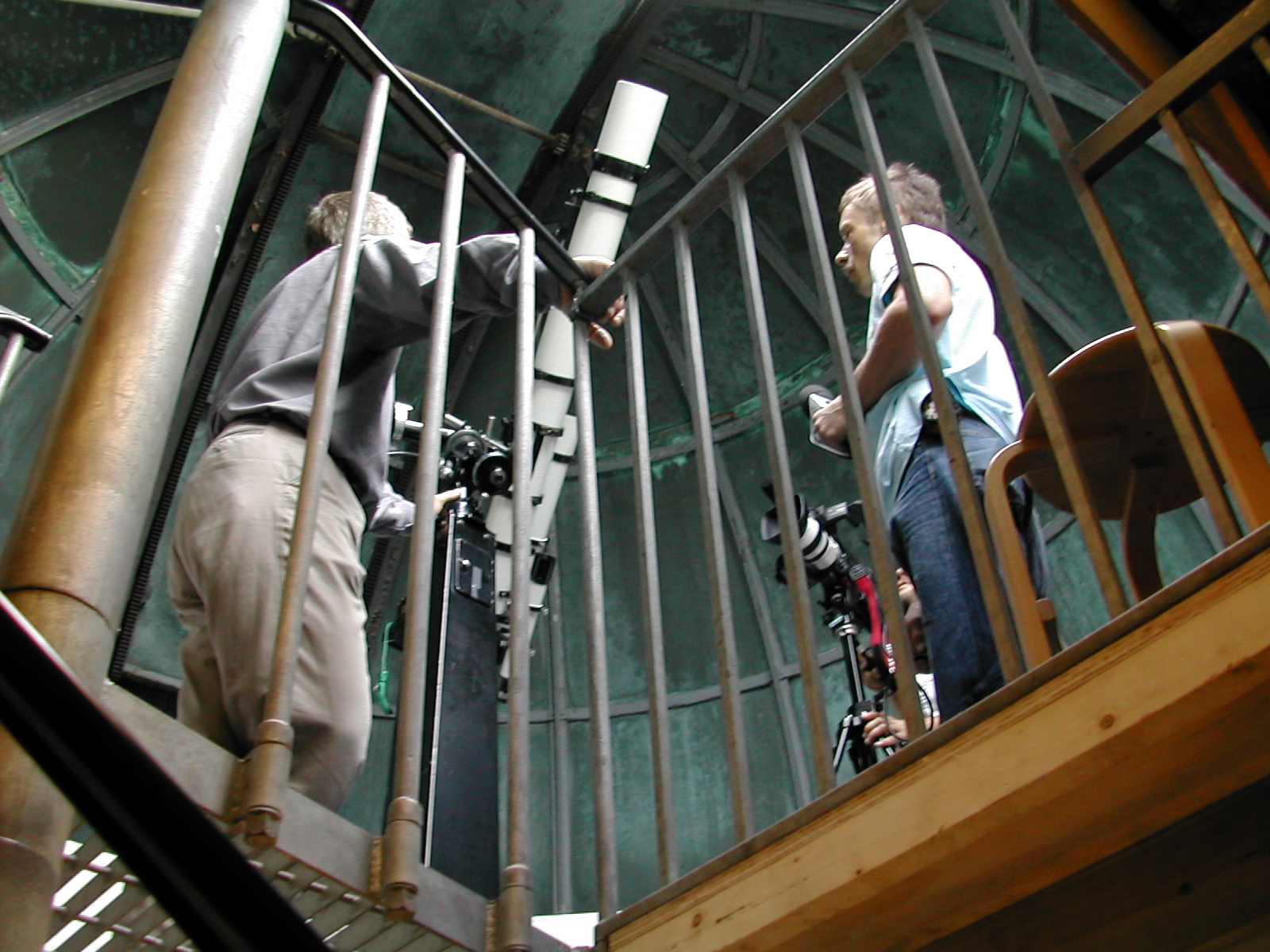 An interview in the Montebello Observatory in Helsingør (Helsinore), Denmark